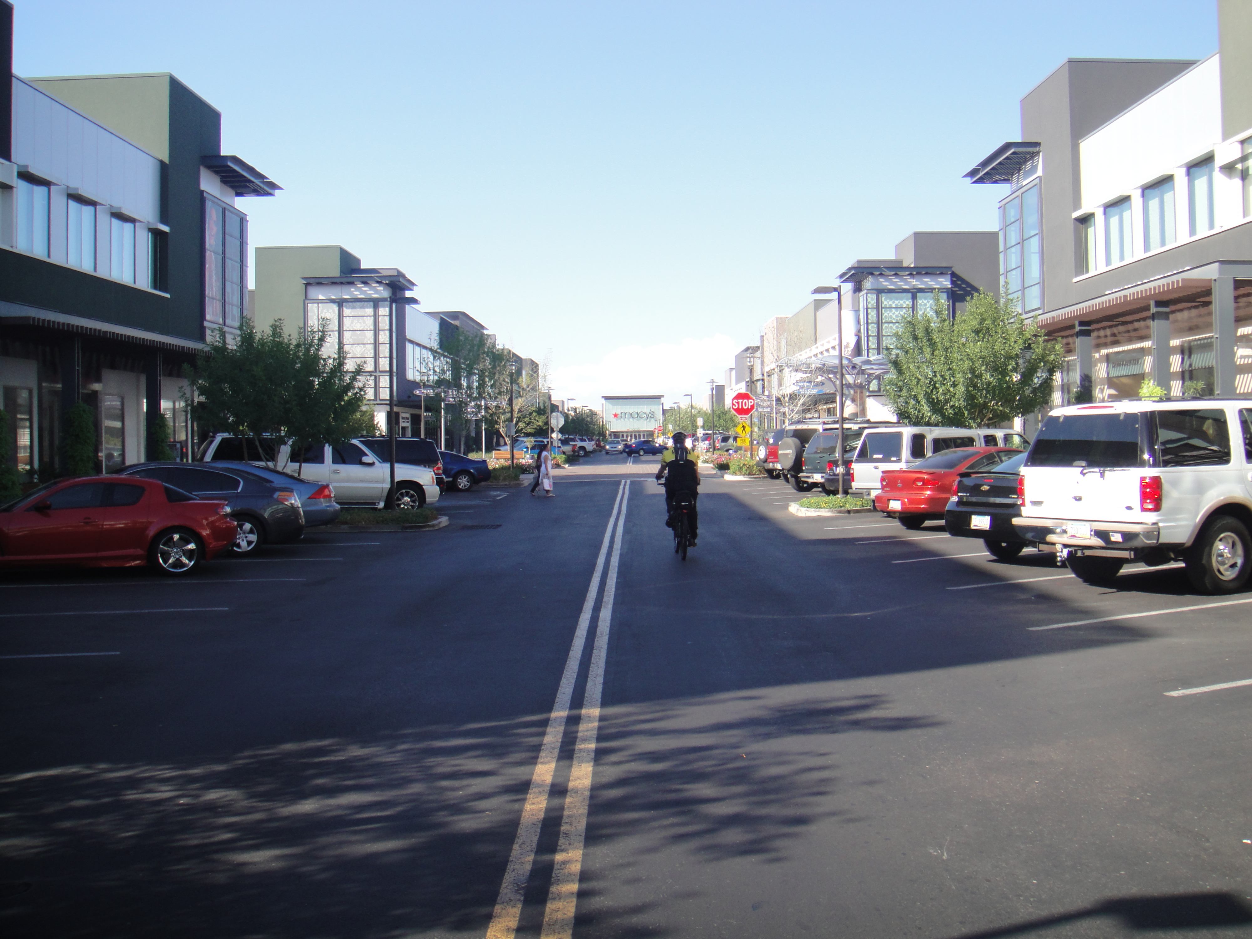 Photo at SanTan Village looking north towards the Macy's department store on Paseo Drive in Gilbert, Arizona